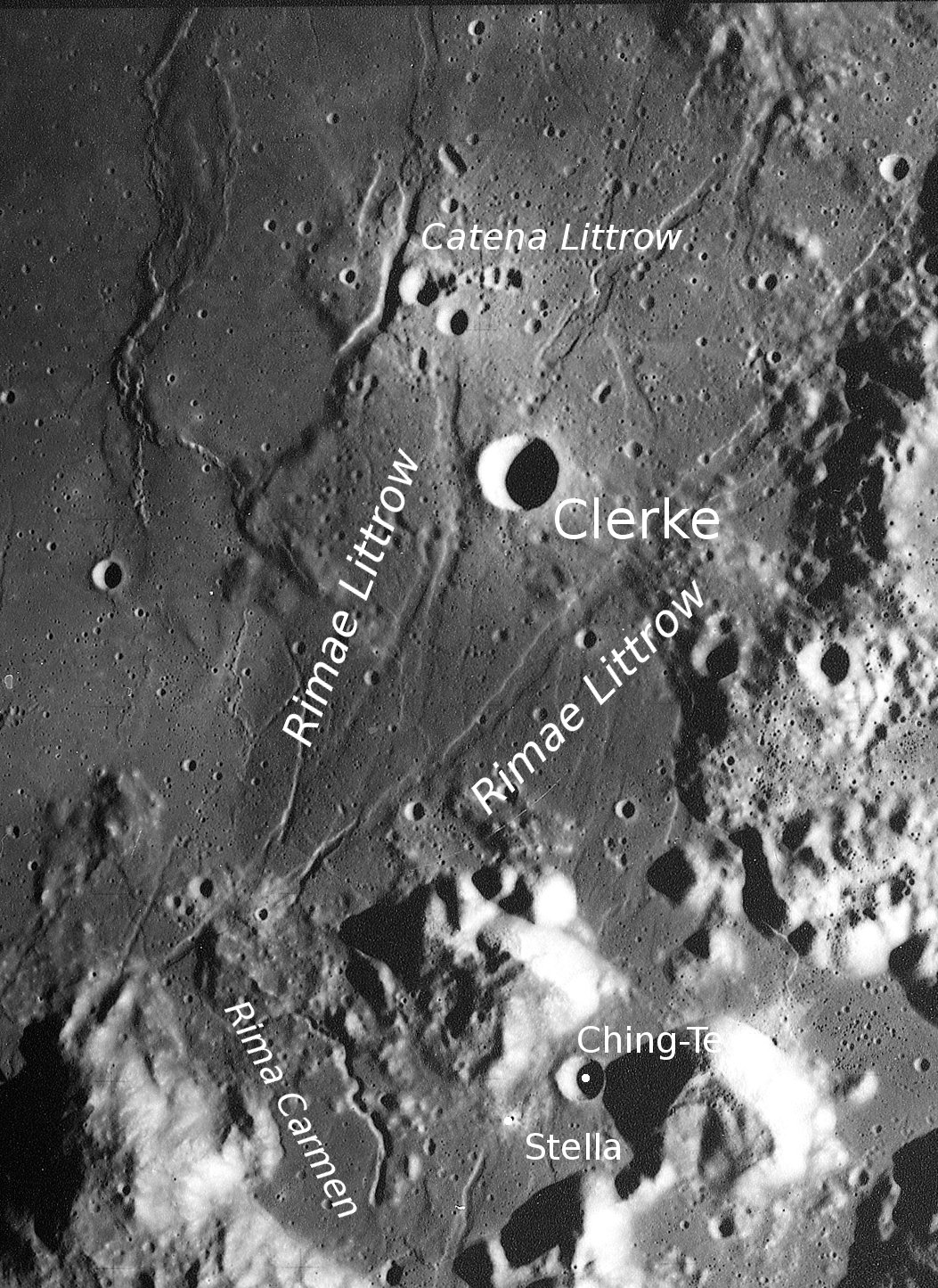 Rimae Littrow. Detail of Apollo 17 image AS17-M-0446, remapped to a north-up view.